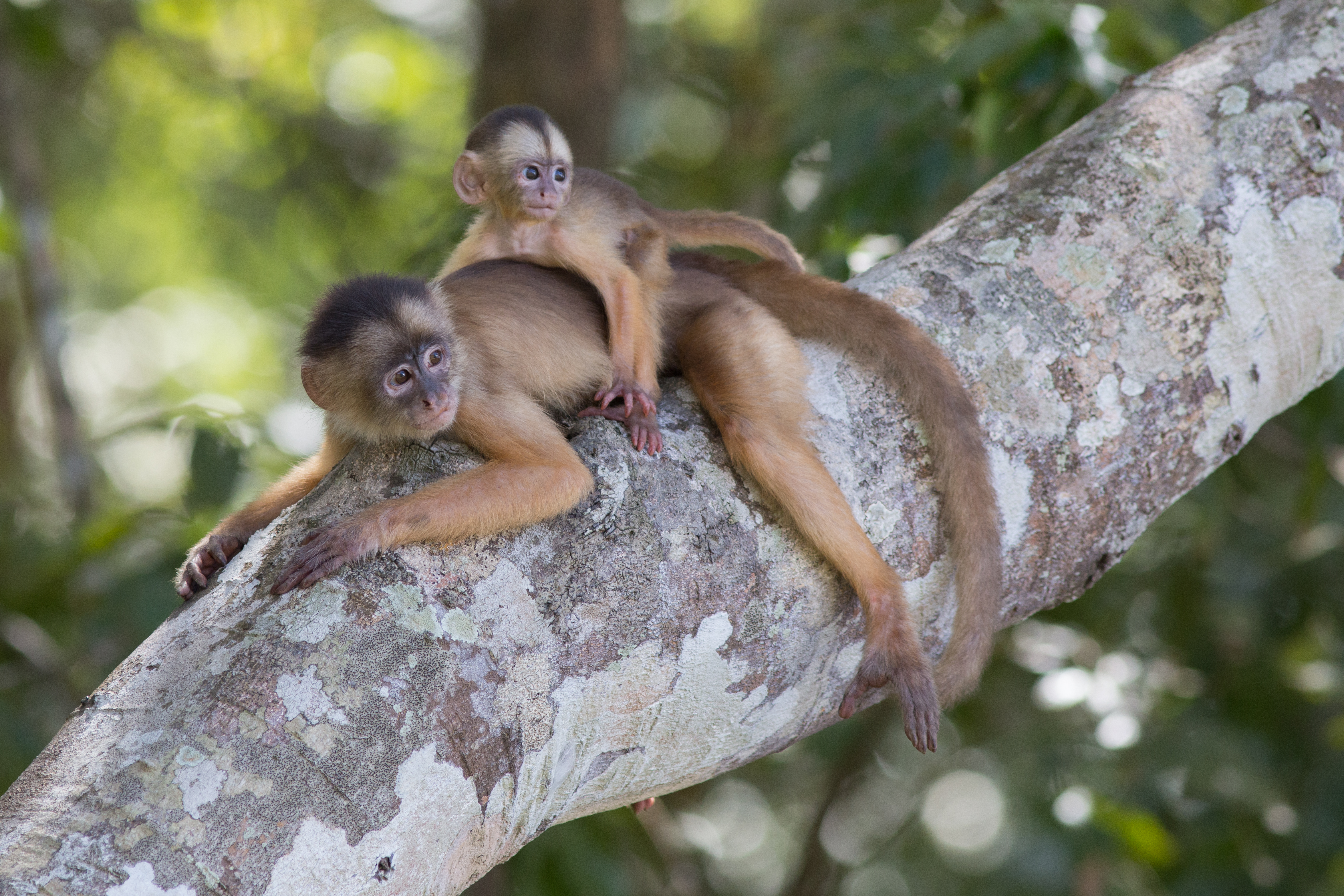 Caiarara monkey (Cebus albifrons) with cub, Rio Negro State Park North Section, Amazonas.